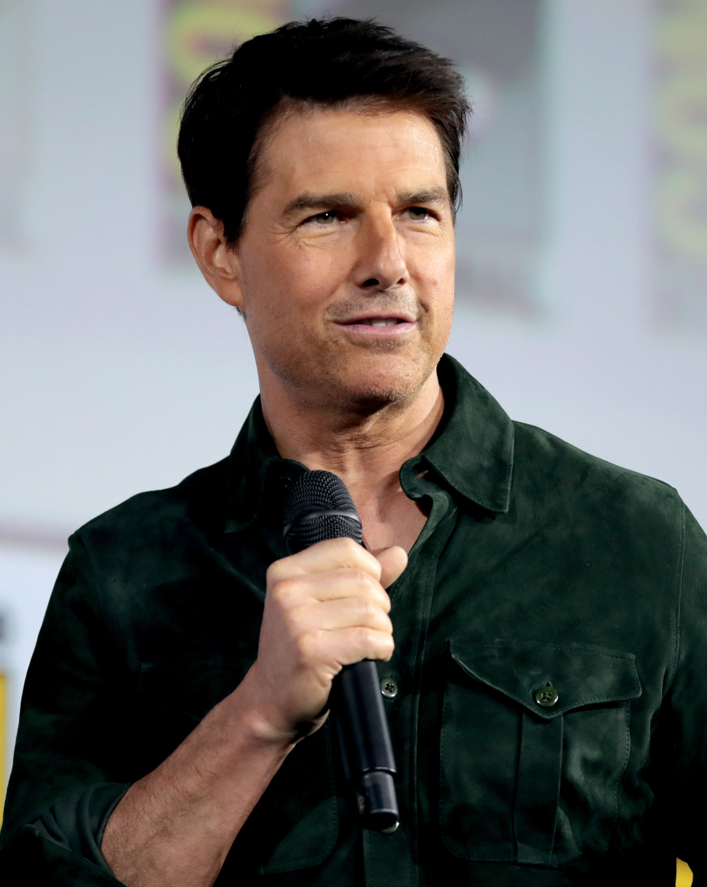 Tom Cruise speaking at the 2019 San Diego Comic Con International, for "Top Gun: Maverick", at the San Diego Convention Center in San Diego, California.